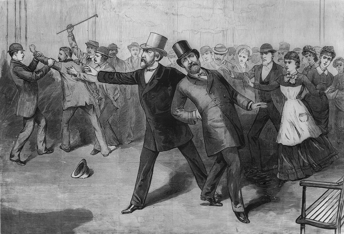 An engraving of James A. Garfield's assassination, published in Frank Leslie's Illustrated Newspaper. The caption reads "Washington, D.C.—The attack on the President's life—Scene in the ladies' room of the Baltimore and Ohio Railroad depot—The arrest of the assassin / from sketches by our special artist's [sic] A. Berghaus and C. Upham."President Garfield is at center right, leaning after being shot. He is supported by Secretary of State James G. Blaine who wears a light colored top hat. To left, assassin Charles Guiteau is restrained by members of the crowd, one of whom is about to strike him with a cane.